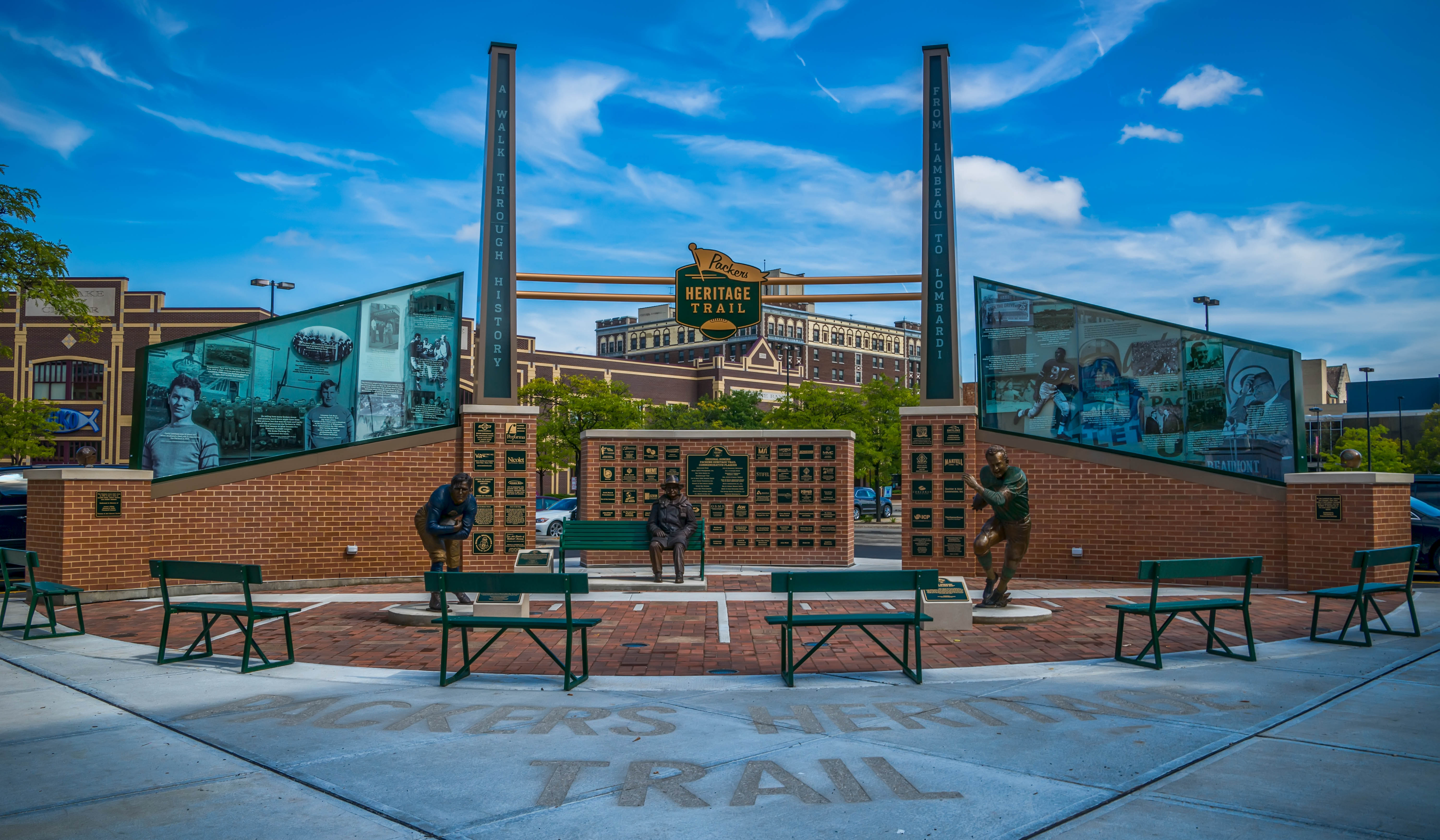 Packers Heritage Trail Plaza in downtown Green Bay.